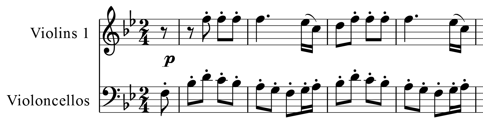 Joseph Haydn, Symphony No. 40, second movement, bar 1-4